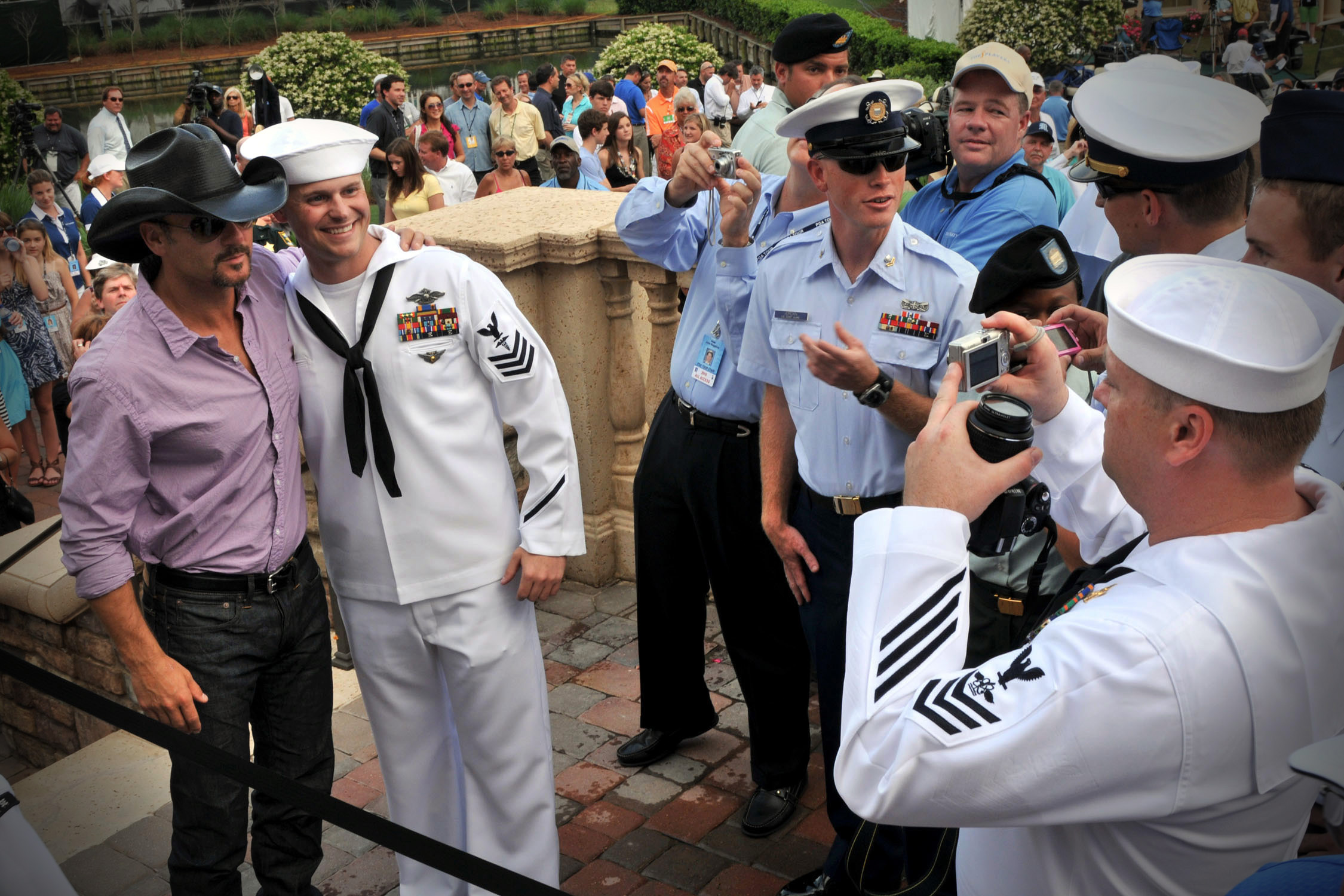 PONTE VEDRA BEACH, Fla. (May 5, 2010) Country music singer Tim McGraw poses with a Sailor before performing a five-song musical tribute dedicated to the nation's military and their families at the Tournament Player's Club at Sawgrass during The Players military appreciation day. (U.S. Navy photo by Mass Communication Specialist 2nd Class Gary Granger Jr./Released)